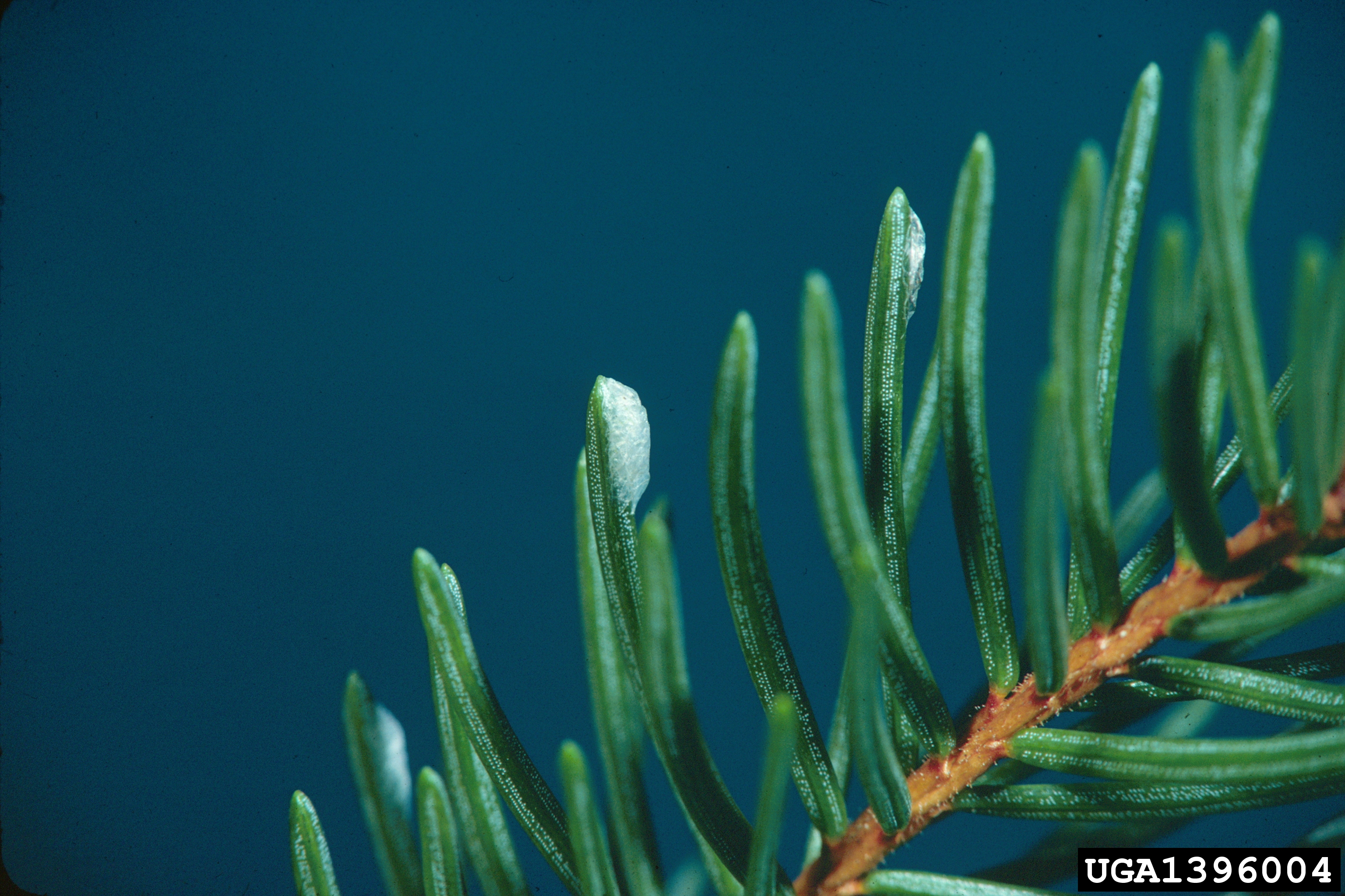 Choristoneura fumiferana eggs